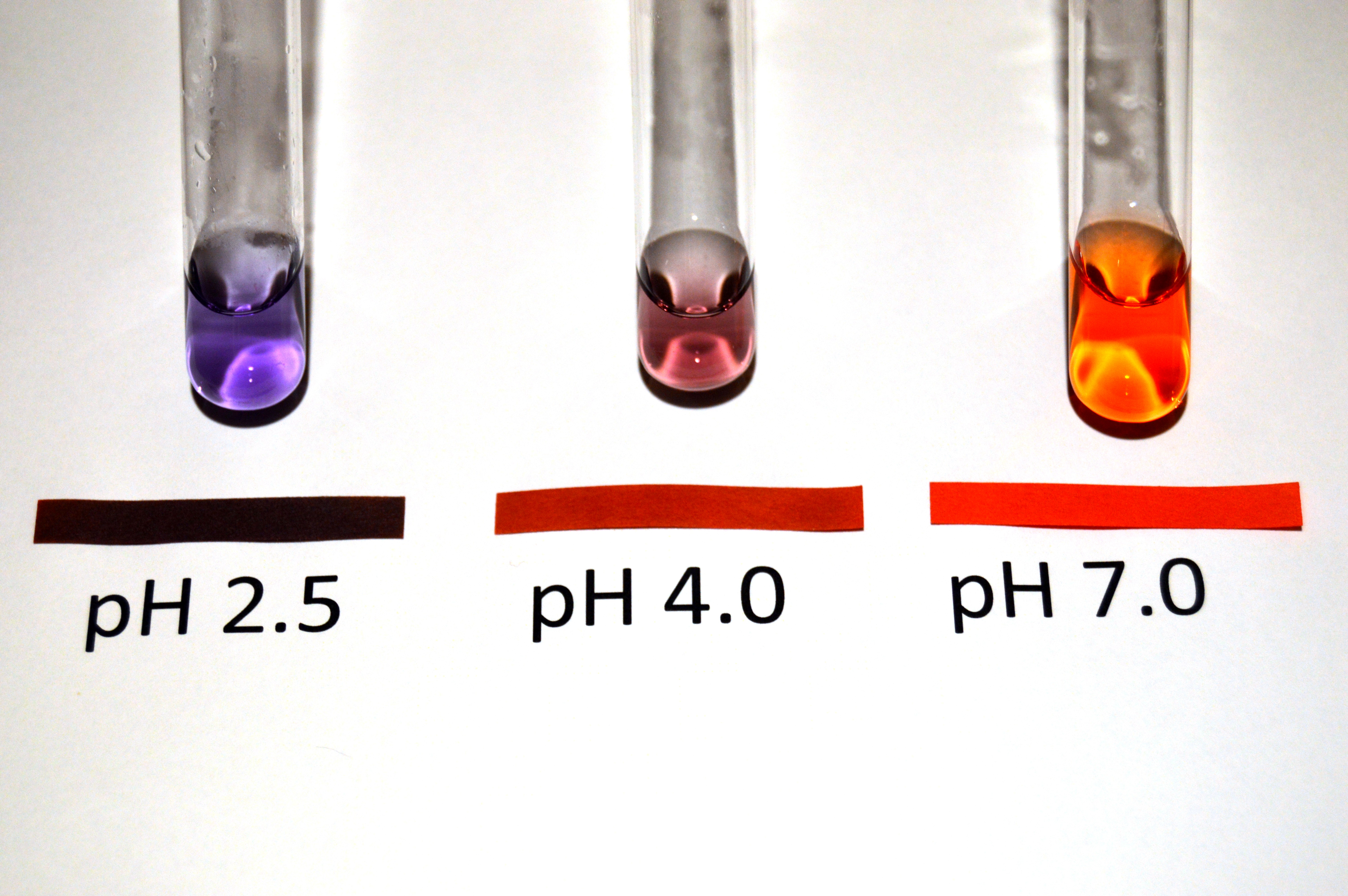 congo red at three different pH values